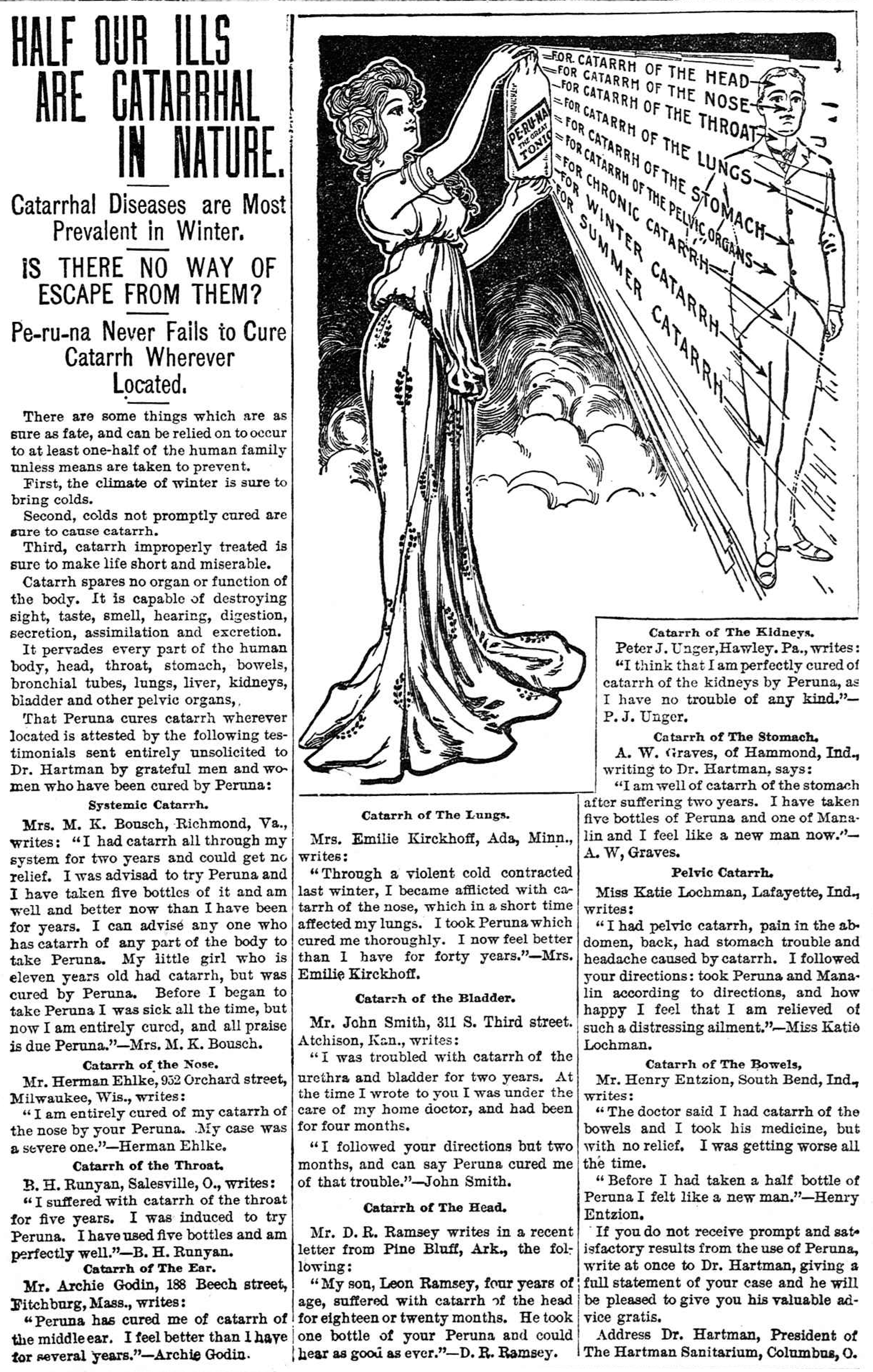 This advertisement in the Lexington Dispatch gives numerous testimonials of the healing powers of Peruna. The illustration at the top right shows a lovely lady holding a bottle of Peru-na, the Great Tonic which shines onto the form of a man. Rays of light point to different parts of the body with bold letters stating it can be used for catarrh of the head, nose, throat, lungs, stomach, and pelvic organs and for chronic, winter, and summer catarrh. Anyone who is not instantly cured by the substance are advised to write to Dr. Hartman, President of the Hartman Sanitarium in Columbus, Ohio for valuable advice on further treatment.